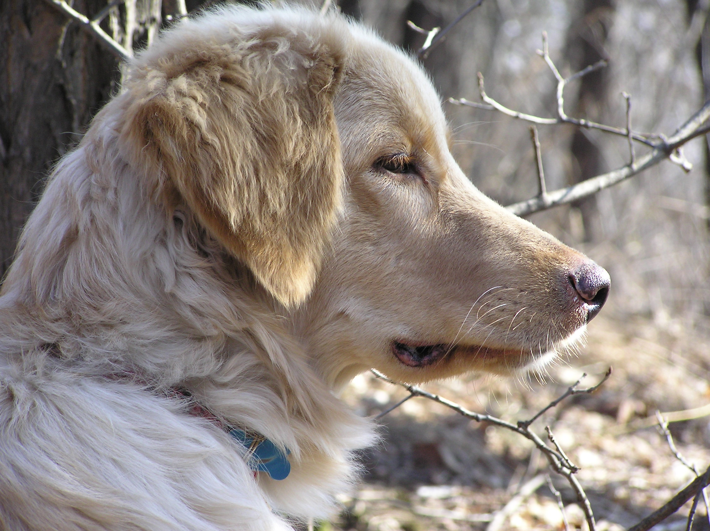 Hovawart half year old blond female, head. Author Karakal